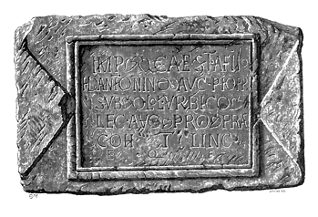 Dedication-slab from the First Cohort of Lingones found 1852, Reused face down in the floor of a water-tank in front of the Headquarters Building, High Rochester (GB).